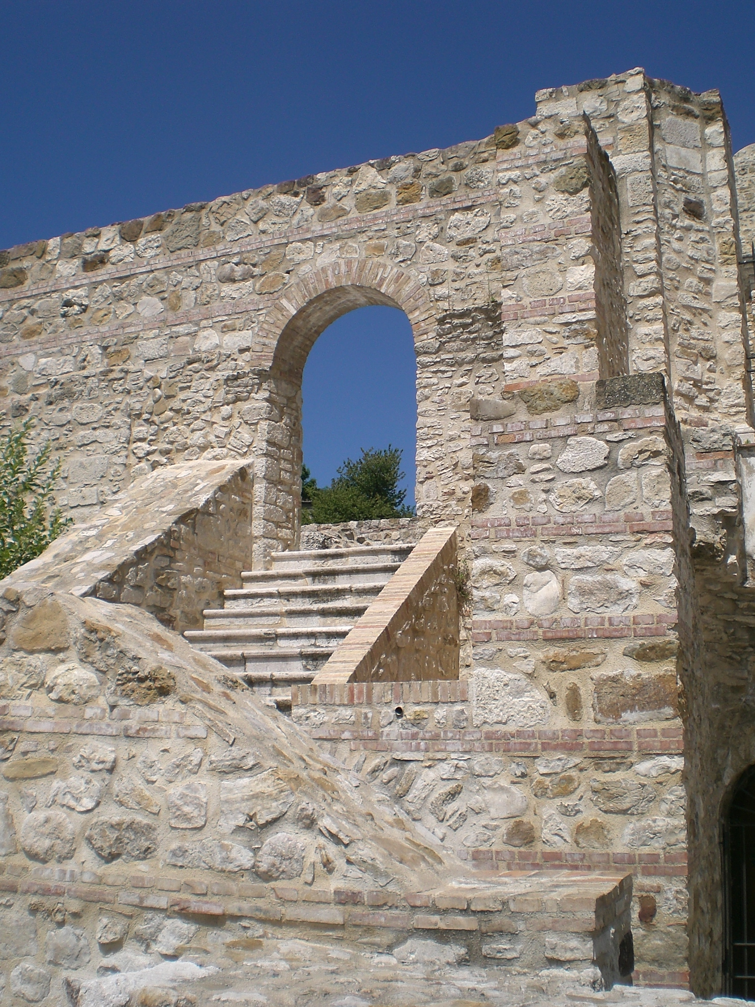 Archaeological site of Compsa